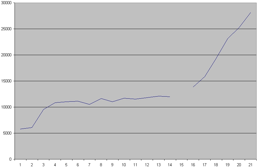 Graph showing population growth of Trowbridge, Wiltshire, 1801 - 2001